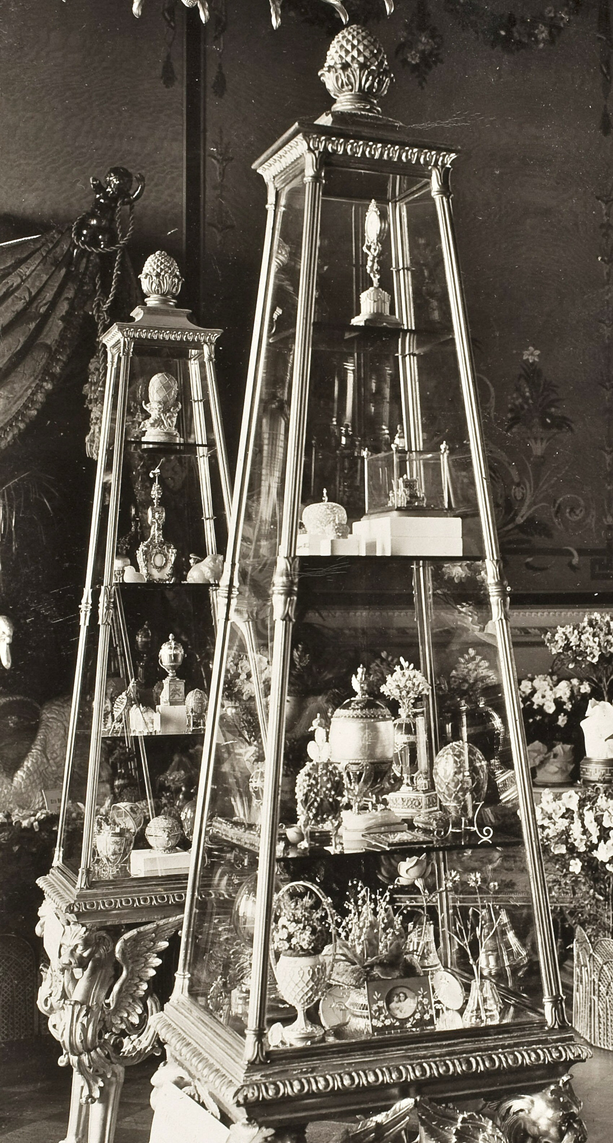 Vitrines showing the Fabergé Imperial Easter eggs belonging to the dowager Empress Maria Feodorovna and the Empress Alexandra Feodorovna. Exhibition at the von Dervis mansion, St. Petersburg, March 1902.